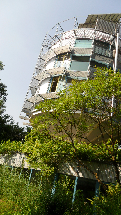 Heliotrope